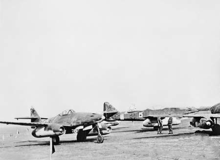 A group of captured Messerschmitt Me 262 aircraft under armed guard at Faßberg, Lower Saxony (Germany), a former Luftwaffe airfield, circa in May 1945. The aircraft at left is `black X' of KG 51, W.Nr. 500200. This Me 262 was flown from Zatec, Czechoslovakia, by lieutenant Froelich and surrendered to British forces. It is now in the collection of the Australian War Memorial. The middle aircraft is `white 5', a Me 262A-1 of JG 7, W.Nr. 111690.